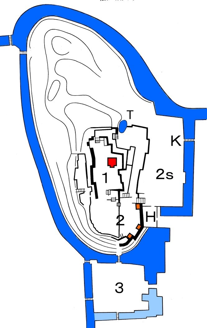 Layout of Matsue Castle